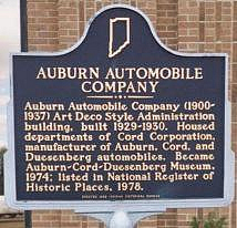 Photo by Michael Walter, a.k.a. Cuppysfriend. I took this picture on October 4, 2004, and have the right to use it.